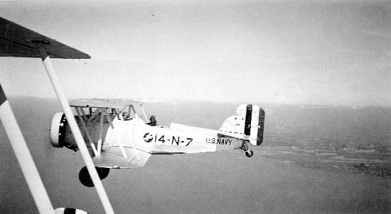 Curtiss F8C-4 Helldiver (1930)